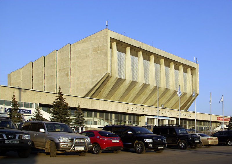 Dynamo Palace of Sports in Moscow, Russia